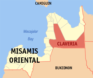 Map of the Misamis Oriental showing the location of Claveria